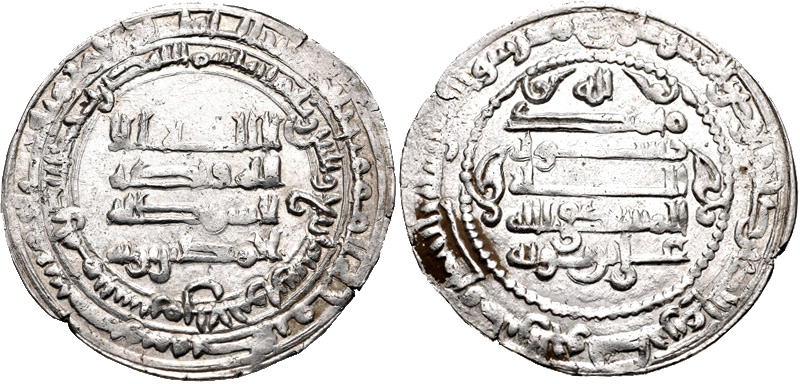 ISLAMIC, Persia (Pre-Seljuq). Buwayhids (Buyids). Mu'izz al-Dawla. As Ahmad ibn Buya, AH 328-334 / AD 939-946. AR Dirham (28mm, 4.20 g, 1h). Tustar min al-Ahwaz (Ahvaz) mint. Dated AH 334 (AD 96). Treadwell Tu334a; Album 1541. Good VF, traces of deposits, slightly weakly struck.